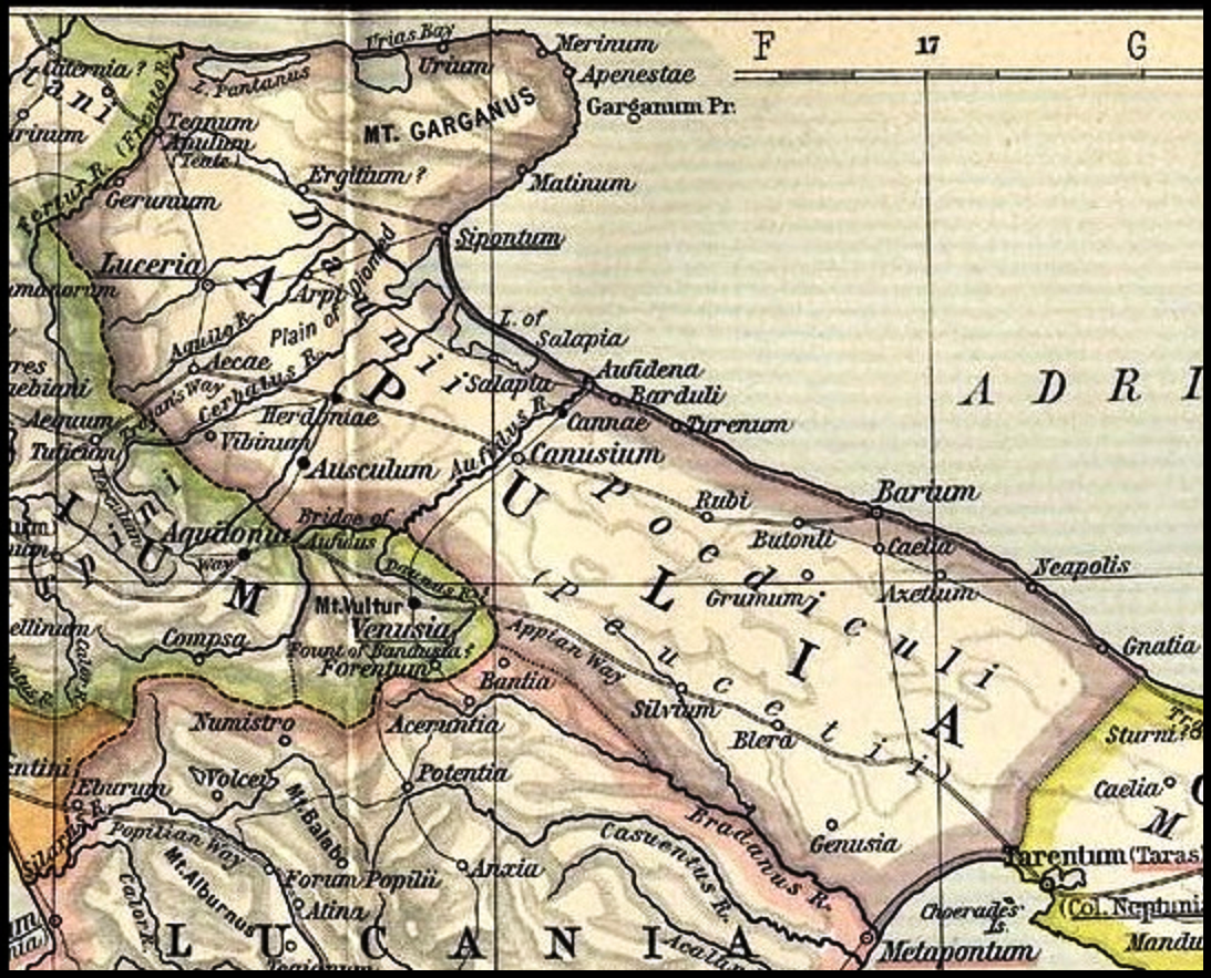 Map of Apulia, cropped from old public domain map of Italy, from the Perry-Castañeda Library Map Collection, Historical Atlas by William R. Shepherd north, south